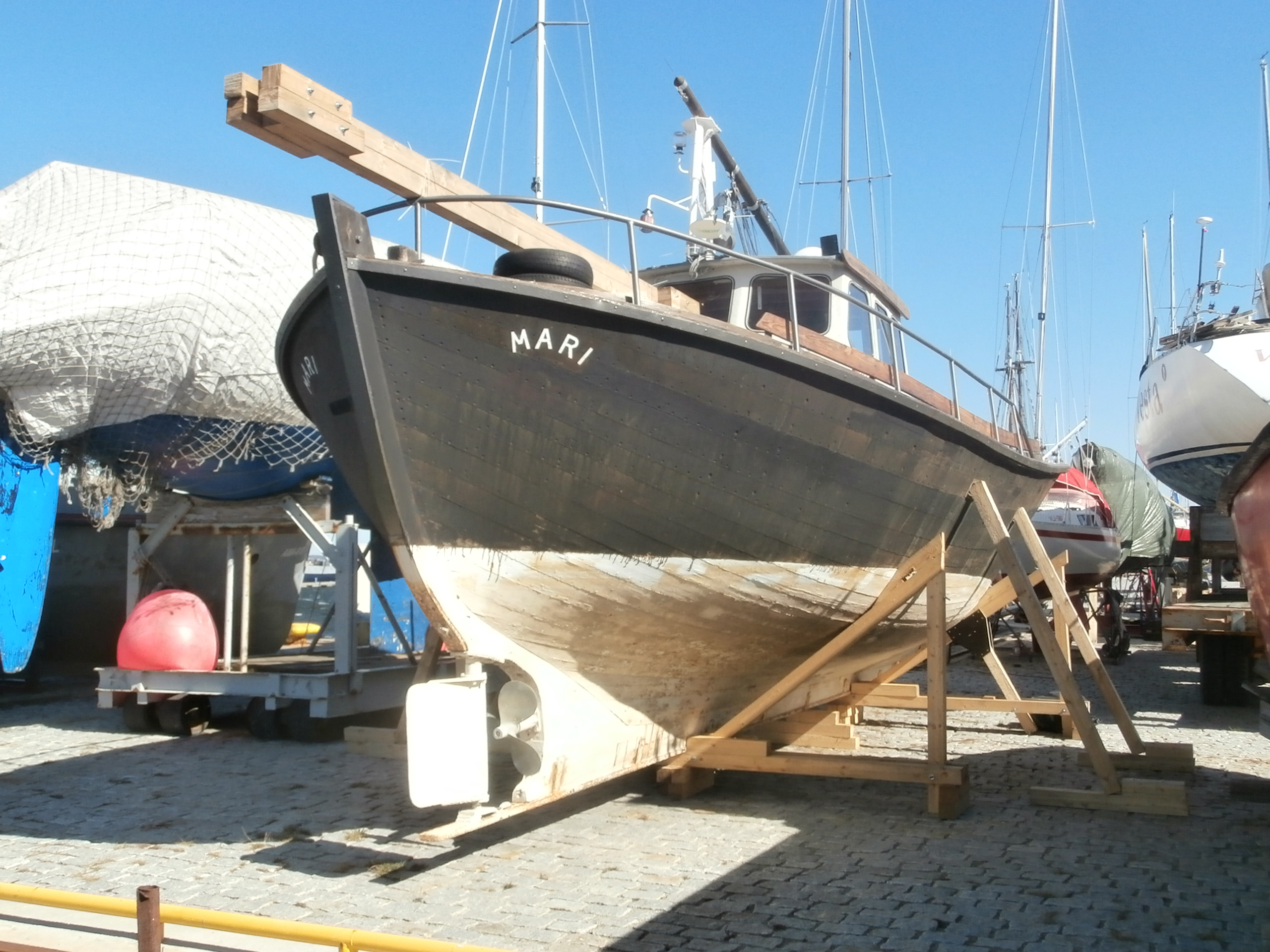 Mari stern starboard view Lennusadam Tallinn 9 April 2014